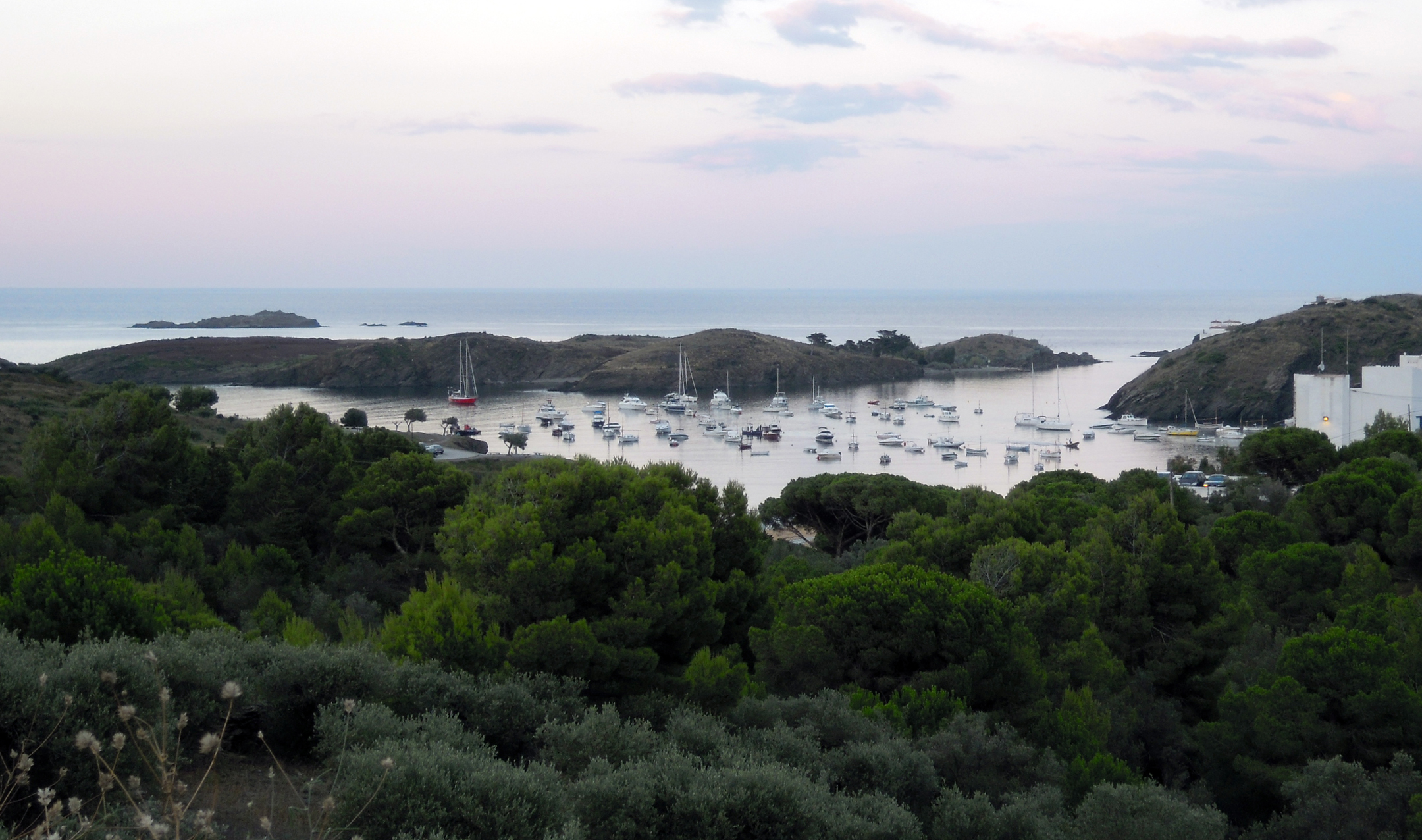 Outlook of Portlligat with Ses Buquelles' pass on the right